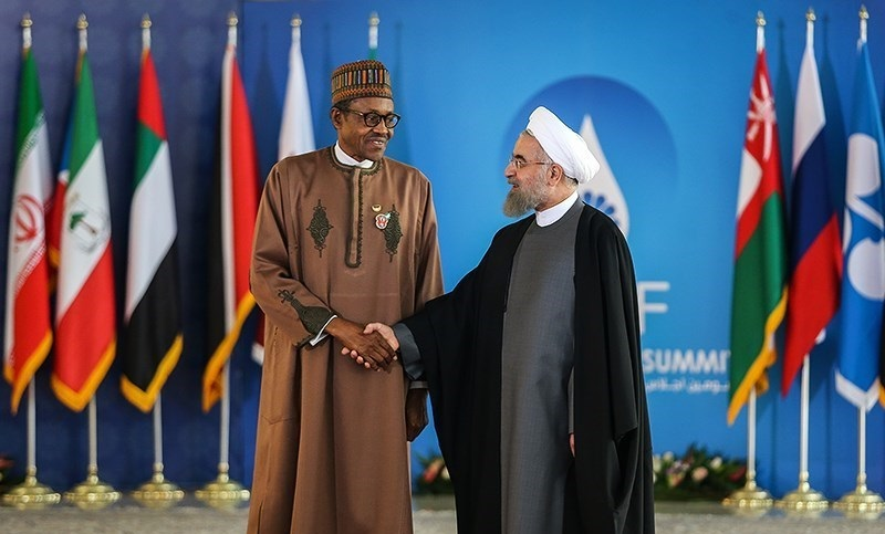 Third GECF summit, Tehran, Iran